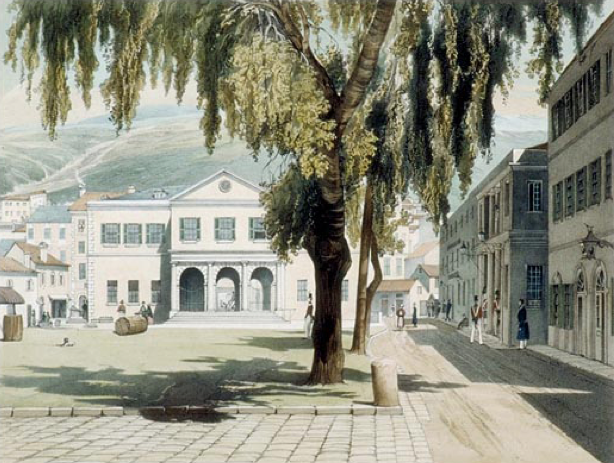 Commercial Square, now John Markintosh Square, with the Exchange and Commercial Library (center left) and the Main Guard with soldiers (right, side) J Carter,1830s